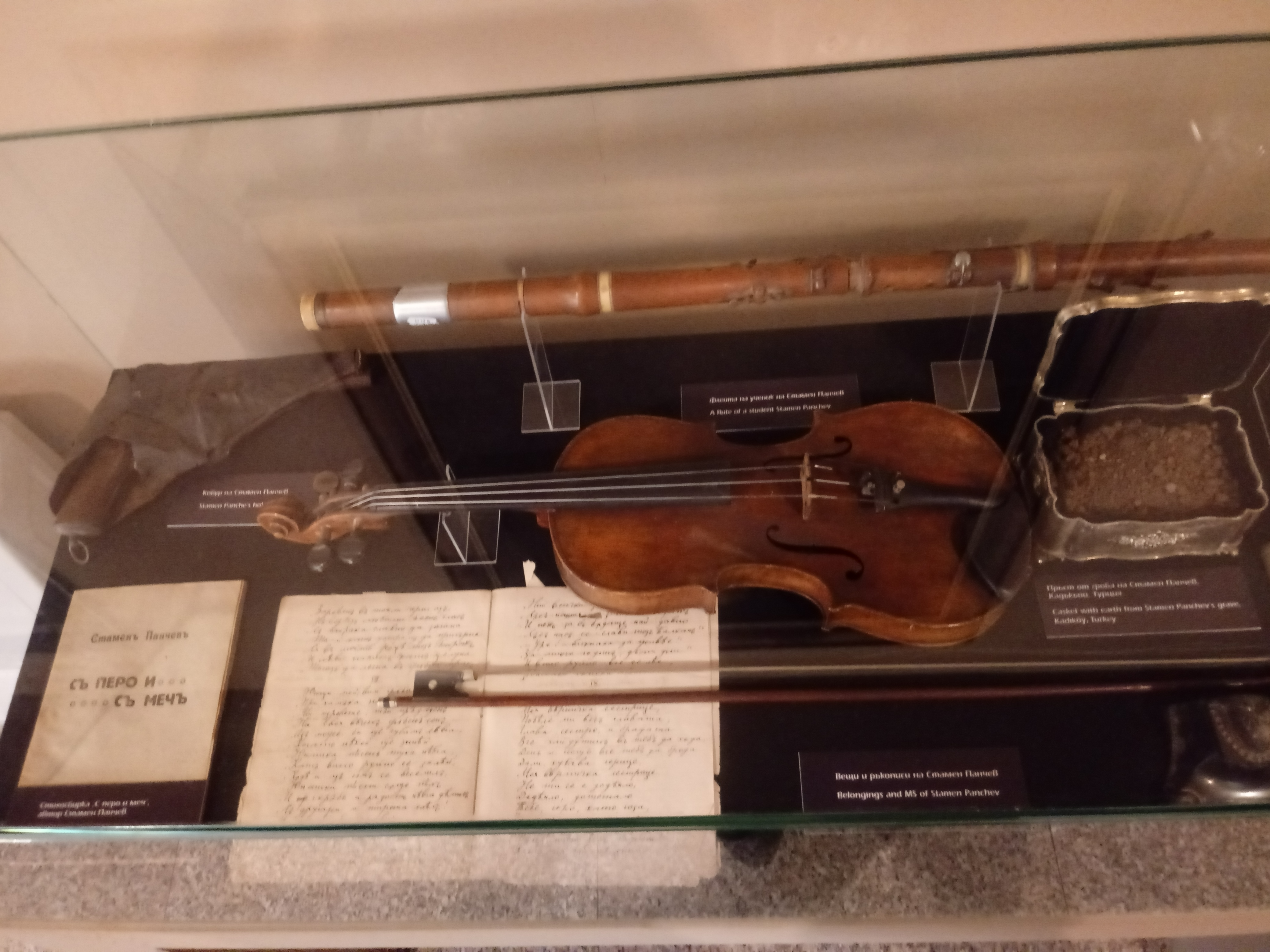 This photo/audio/video was uploaded during the creation of the first wikitown in Bulgaria – WikiBotevgrad. All files are uploaded by their authors or their permission. The cooperation is between Wikimedians of Bulgaria User Group, Municipality Botevgrad, Historical Museum - Botevgrad and Ivan Vazov Library in Botevgrad.